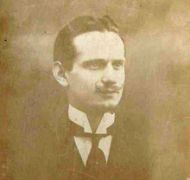 Portrait of Louis Bril